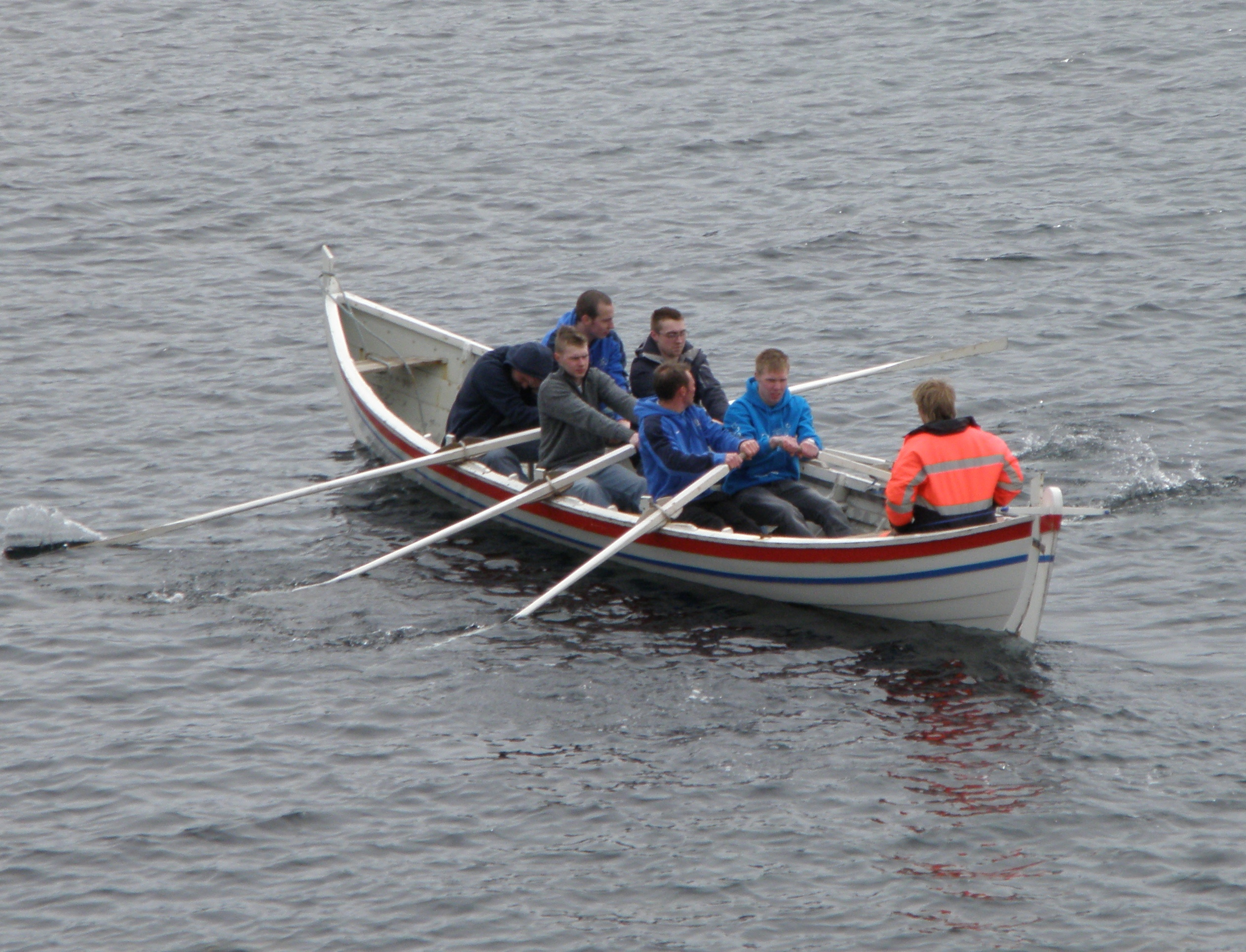 Broddur is a wooden rowing boat from the village Sumba (also written Sunnba) in Suðuroy, Faroe Islands. Broddur is a 5-mannafar, which is the smallest boat type used for rowing competitions. The boat has not competed in the national Faroese competition for several years, but in May 2012 it competed in a local rowing competition in Sumba. The sea is know to be quite rough in Sumba, there is no fjord, but open sea. Some decades ago men from the village competed in the FM competitions in the largest boat type 10-mannafar with ten rowers, and they won some events and even sat a Faroese record. Sumbingur was built in 1957. The boat was called Sunnbingur (also written Sumbingur). Føroyskt: Broddur er eitt 5-mannafar hjá Sunnbiar Ítróttarfelag, sum fyrr hevur luttikið í kappróðri. Henda myndin varð tikin 19. mai 2012, tá ein stevna var í Sumba, Sunnbiarstevna. Har høvdu tey m.a. skipað fyri kappróðri, har tríggir bátar luttóku, teirra millum var Broddur. Báturin varð smíðaður í 1974. Sunnbingar hava eisini átt eitt 10-mannafar, sum nevndist Sunnbingur ella Sumbingur. Hesin vann við hvørt róðurin hjá 10-mannaførum, og setti eisini eitt føroyskt met. Sumbingur luttók í FM róðri frá 1957 til 1965.